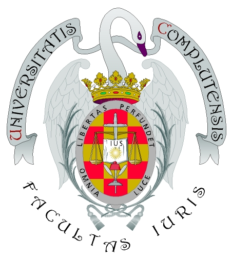 Emblema de la Facultad